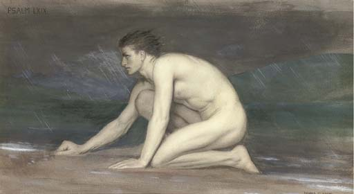 Psalm LXIX, pencil and watercolour heightened with bodycolour by Edward Clifford (1844-1907), 1872